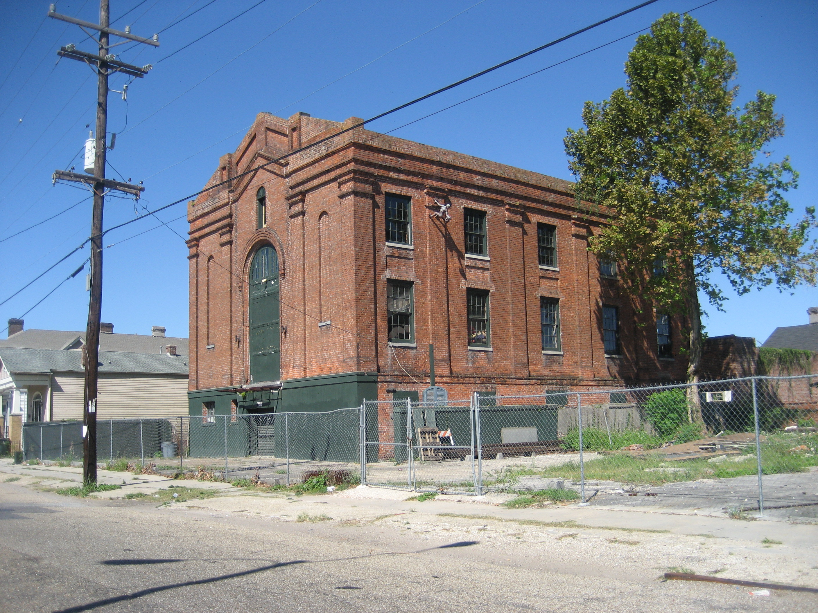 Jackson Avenue, New Orleans. Former synagogue building. Shaare Tefilah (בית כנסת שערי תפילה, Sha'arei Tfilah; Gates of Prayer)